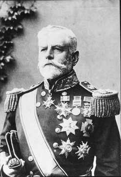 This image shows a photograph of Day Bosanquet, taken ca 1910. Under Australian law, all photographs taken in Australia before 1955 are in the public domain. This image is in the public domain under both Australian copyright law and US copyright law. Accessed from